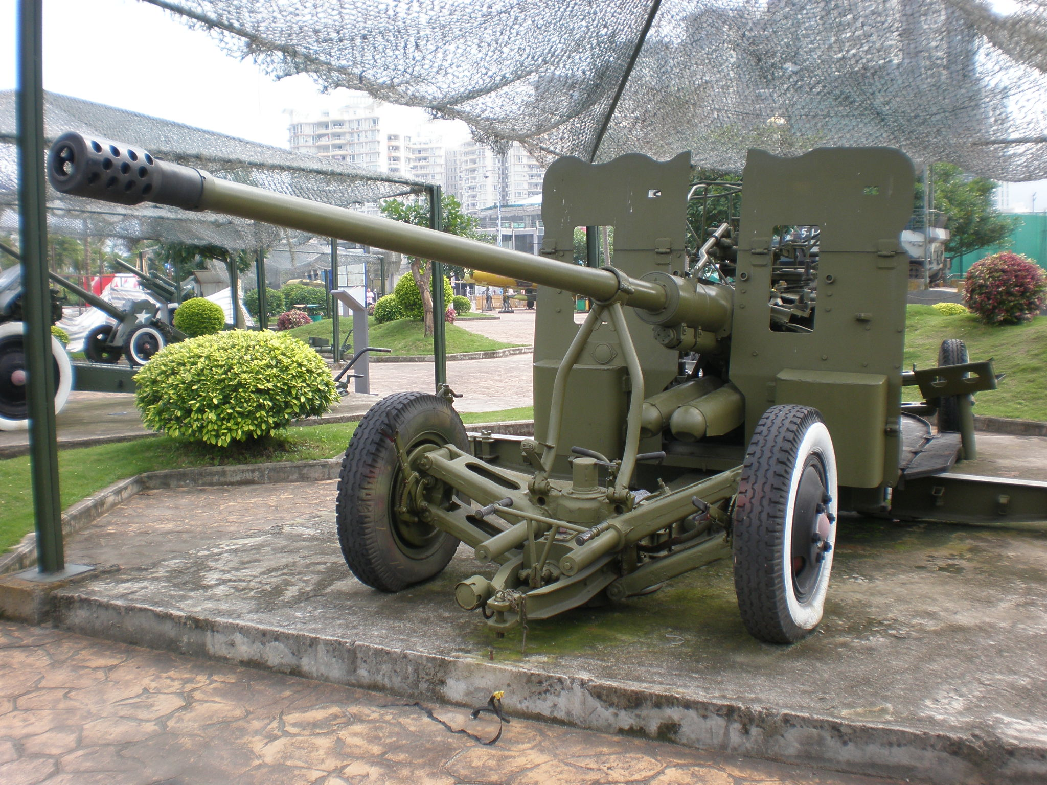 A Type 59 57 mm AA gun, a Chinese variant of the Soviet 57 mm AZP S-60, on display at the Minsk World military theme park in Shenzhen, China. The former Soviet aircraft carrier Minsk is the centerpiece of Minsk World.